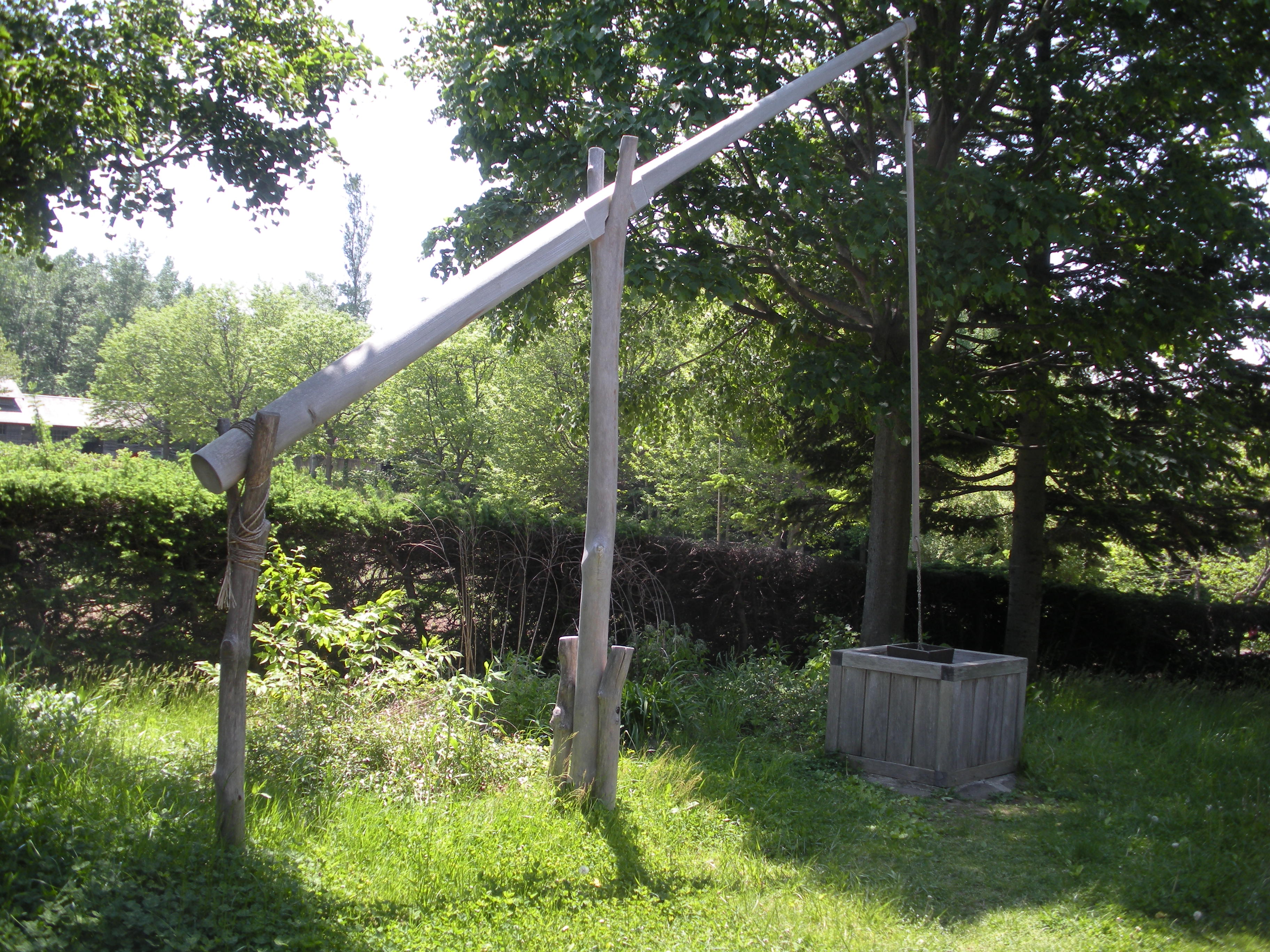 Japanese Water Well. Historical Village of Hokkaid. Atsubetsuch-konopporo, Atsubetsu-ku, Sapporo, Japan.